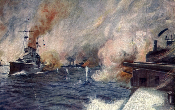 Battle of Coronel, 1914-11-01